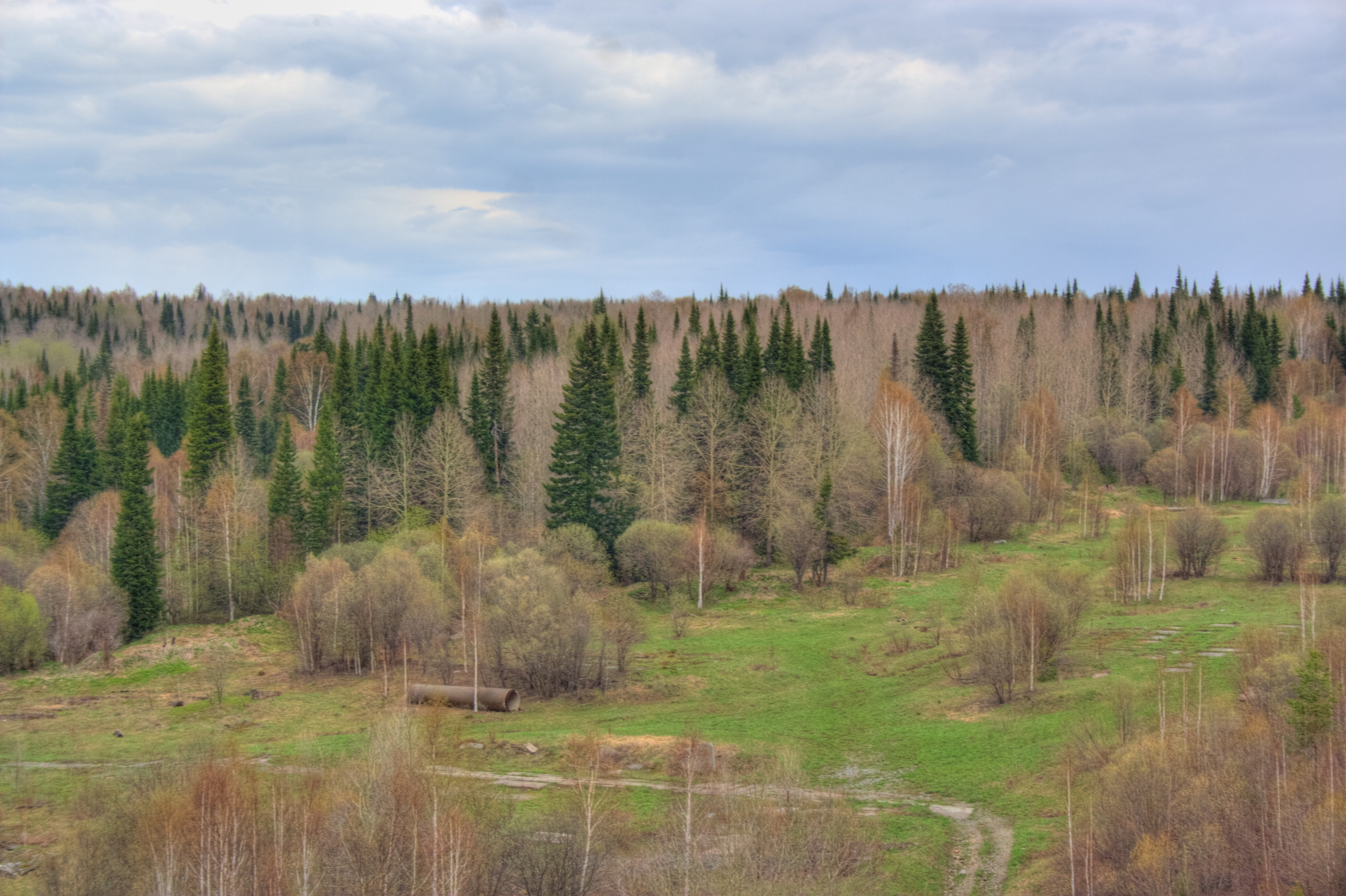 Taiga in Zalesovskiy raion of Altai region